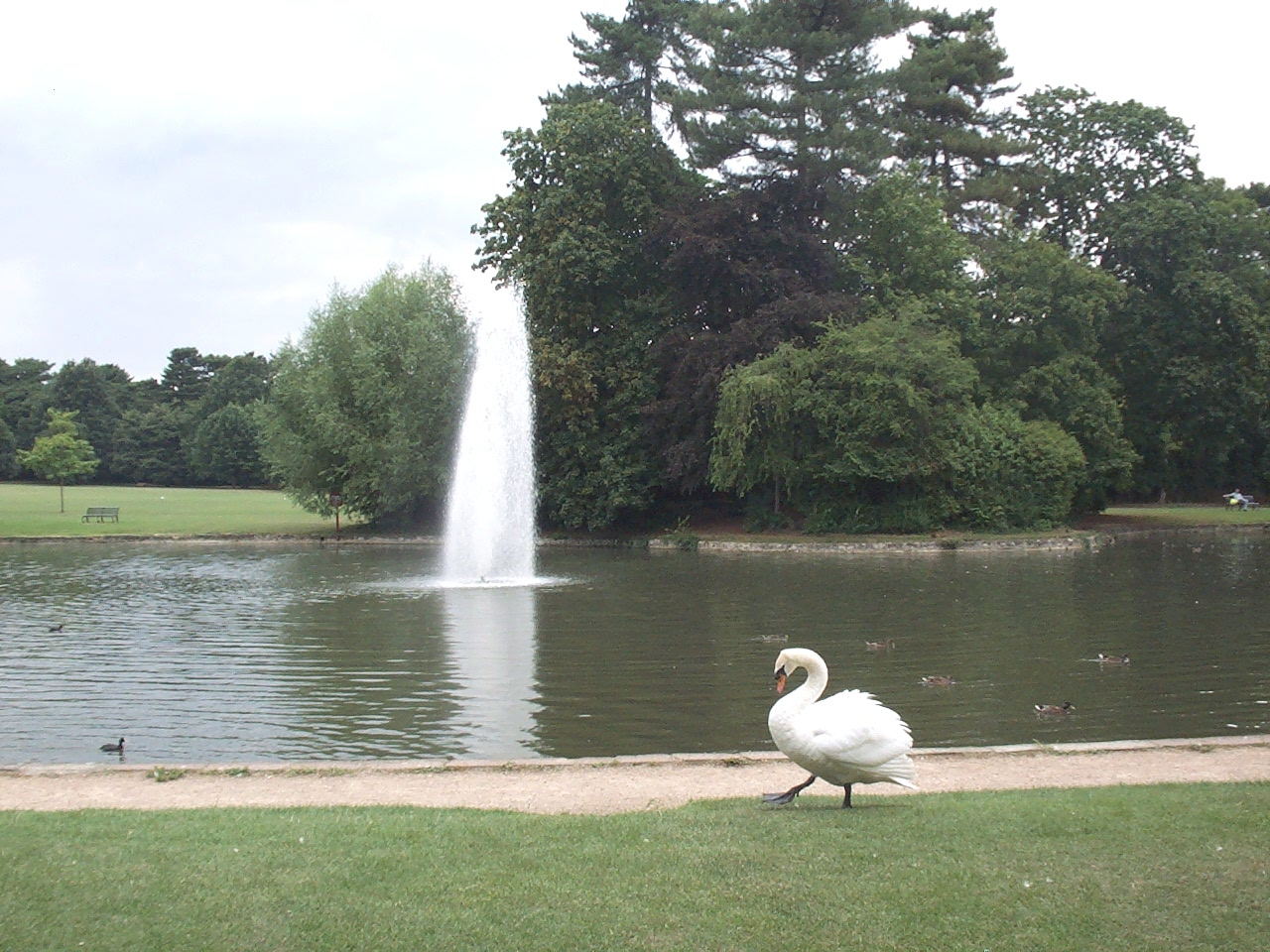 Ornamental lake in Bedford Park, Bedford, with swan displaying.